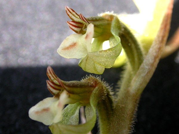 Stigmatosema polyaden